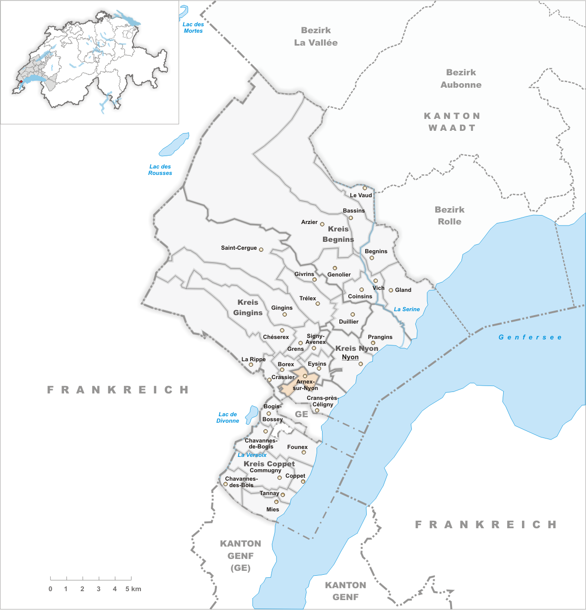 Municipality Arnex-sur-Nyon